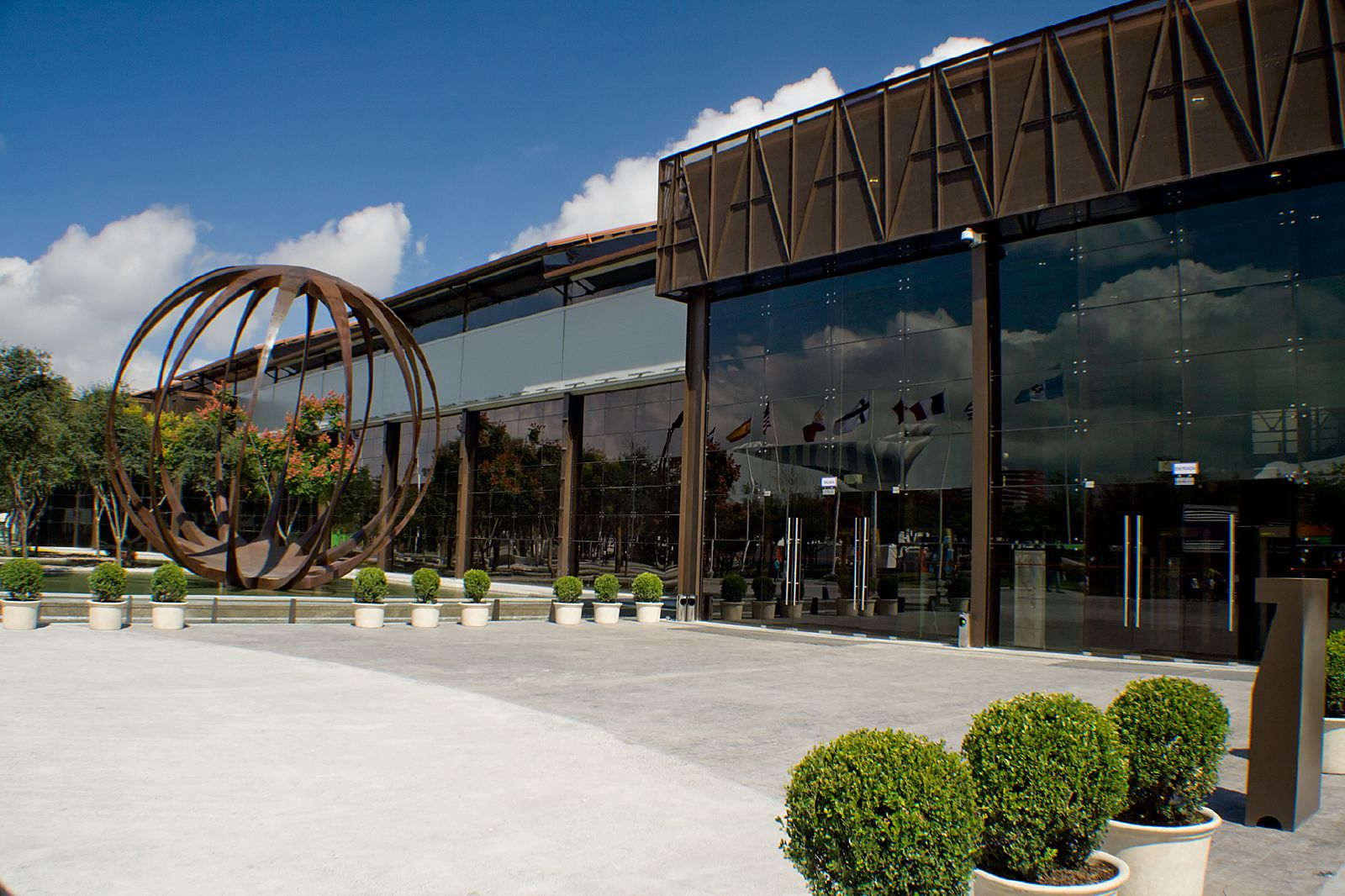 The old Lewis Building, nowadays and Expo Center in Parque Fundidora, Monterrey, Mexico.